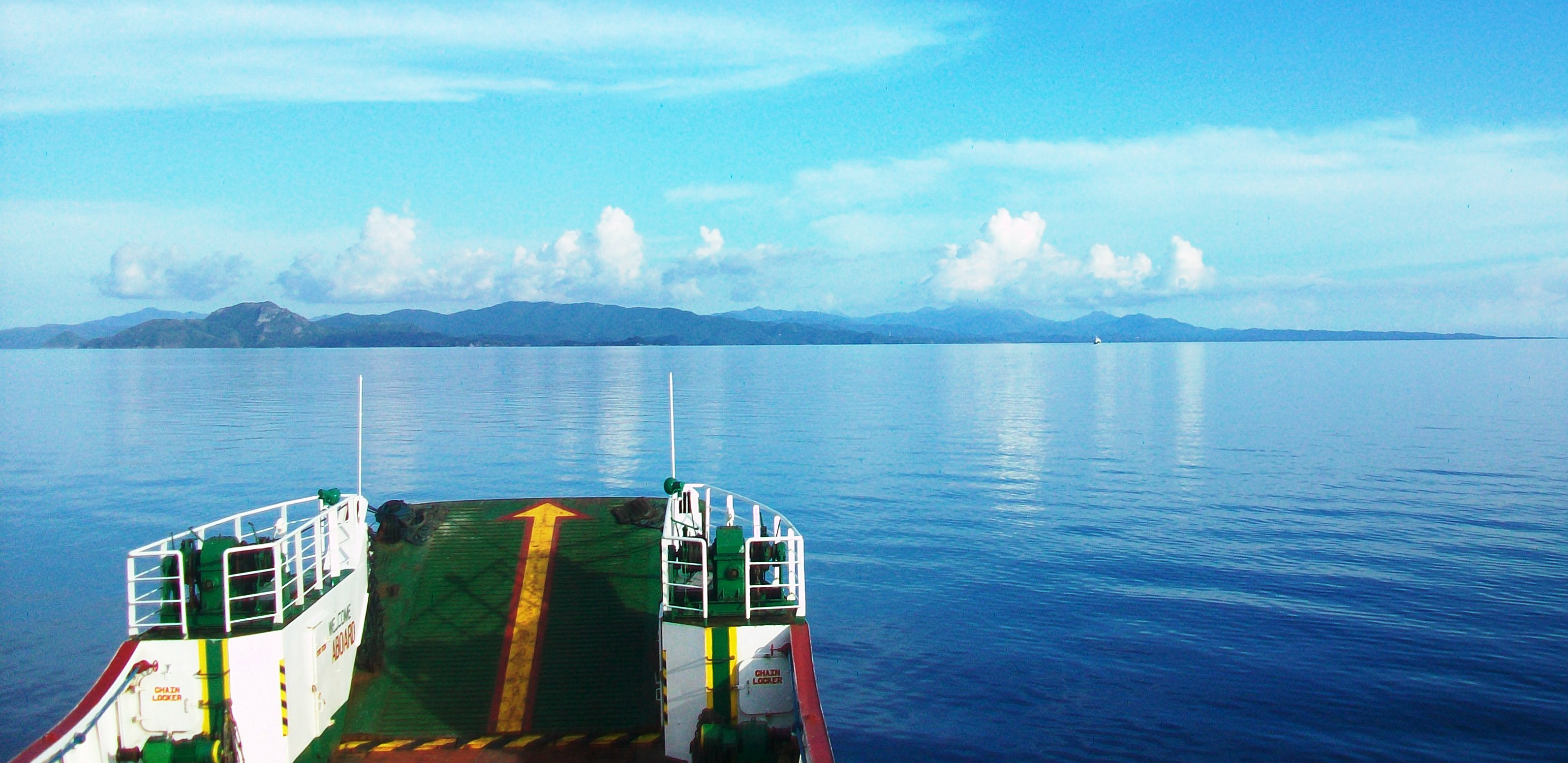 Approaching ro-ro ship coming from Lucena City Port near to going in to Balanacan Port.